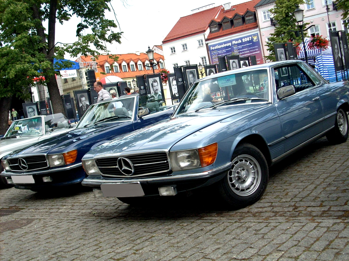 photo is taken with Nikon L10 camera